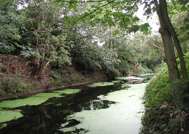 Beverley & Barmston Drain, Newland, Hull, East Riding of Yorkshire, England.The Beverley & Barmston Drain just west of the bridge on the A1079 (Beverley Road). The drain runs roughly parallel with the River Hull all the way from the River Hull New Cut at North Frodingham TA0750 almost as far as the Humber, rejoining the River Hull near Wincolmlee TA1029. In the early summer of 2007 most of East Yorkshire's drains were completely overwhelmed by unusually heavy rainfall, resulting in widespread flooding in and around the city of Hull.